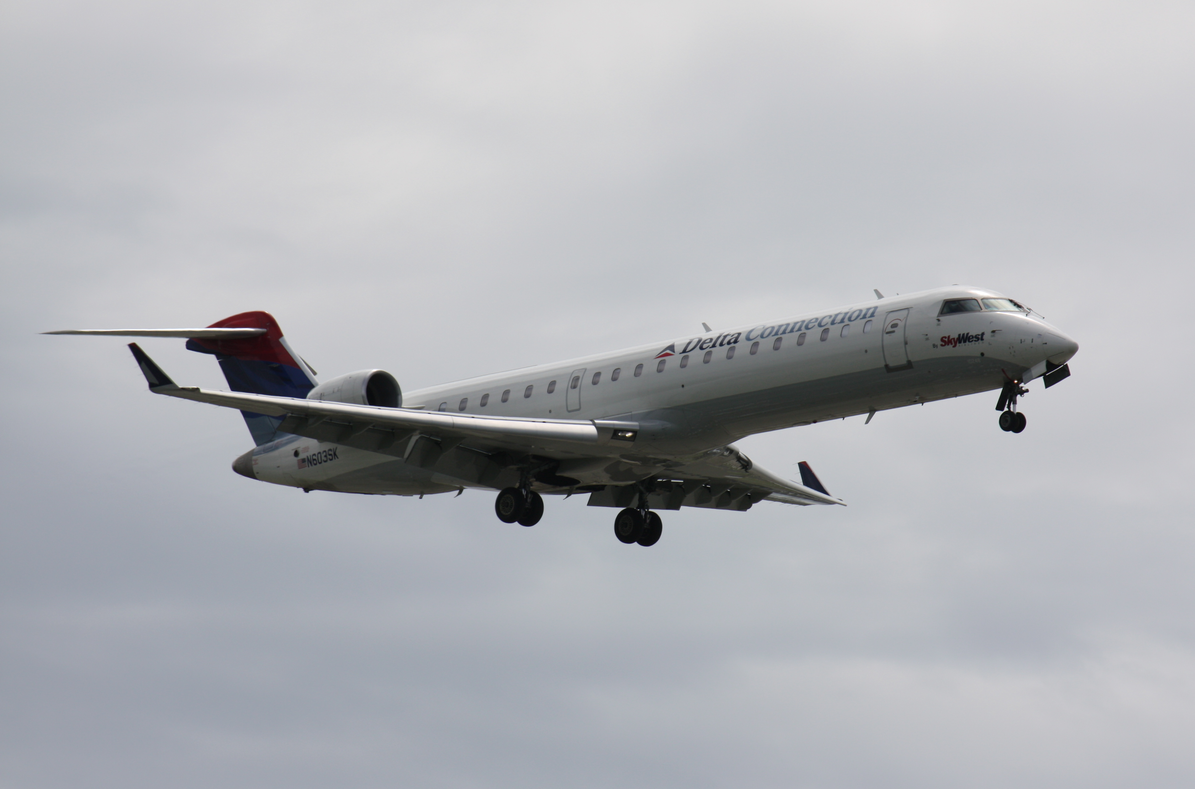 A Delta Connection Bombardier CRJ-701, operated by SkyWest, landing at Vancouver International Airport